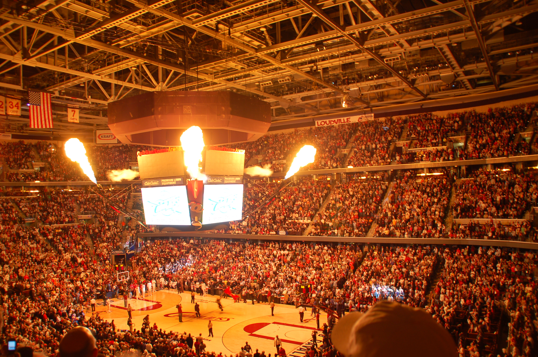 The scoreboard at Quicken Loans Arena spouts flame prior to a Cleveland Cavaliers game.